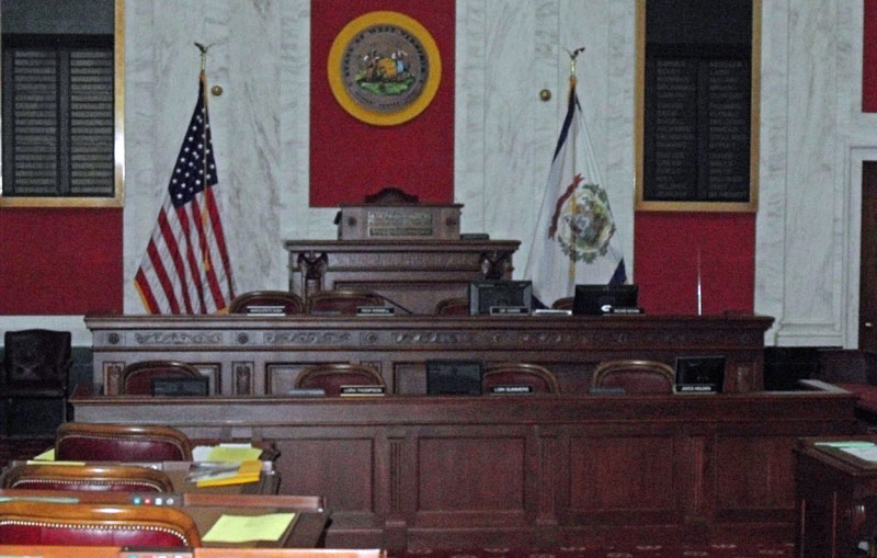 The chambers of the West Virginia Senate